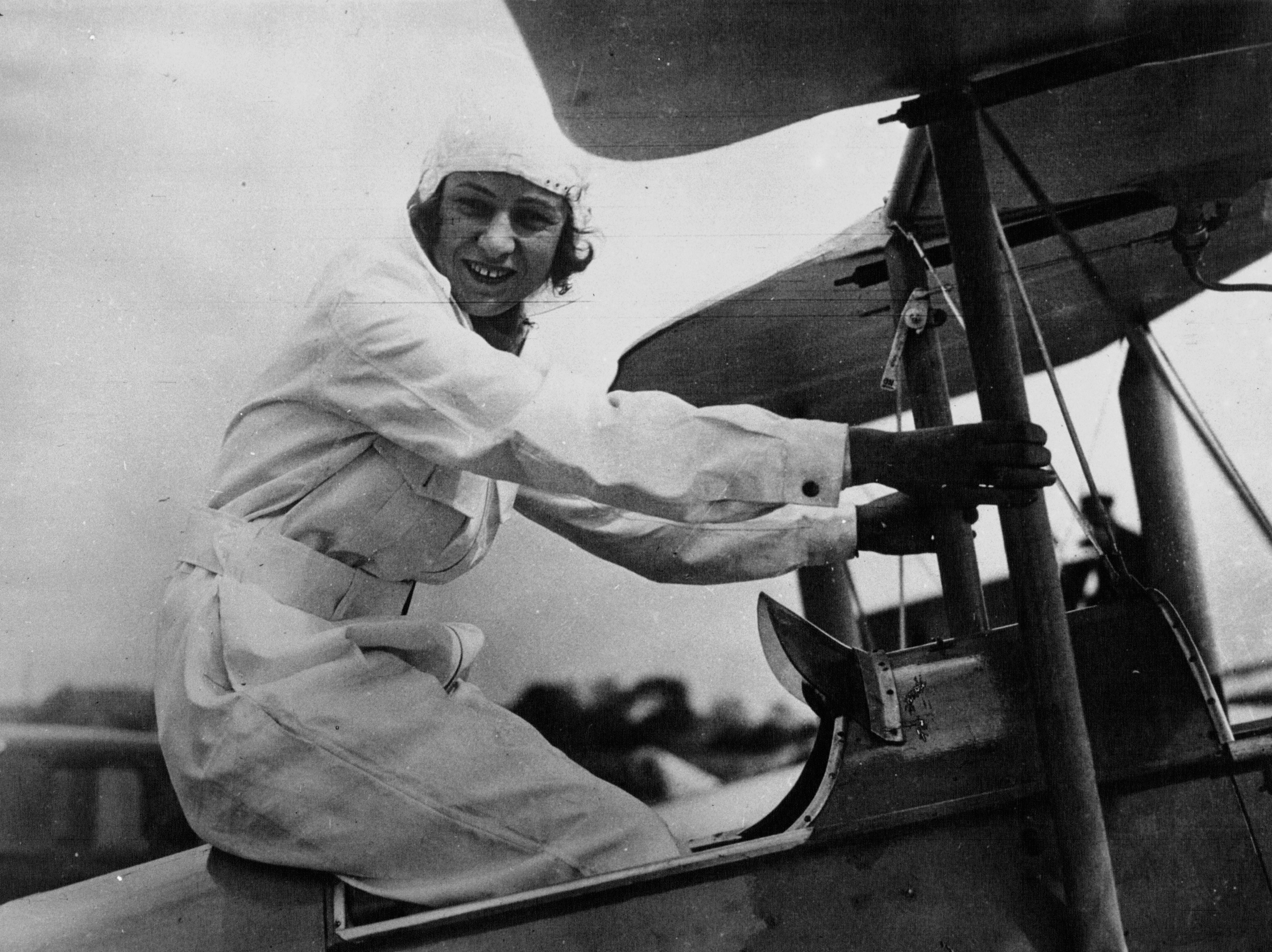 British alpine skiing champion and aviator Audrey Sale-Barker (1903-1994) at the time of her flight from London to Cape Town in 1932.